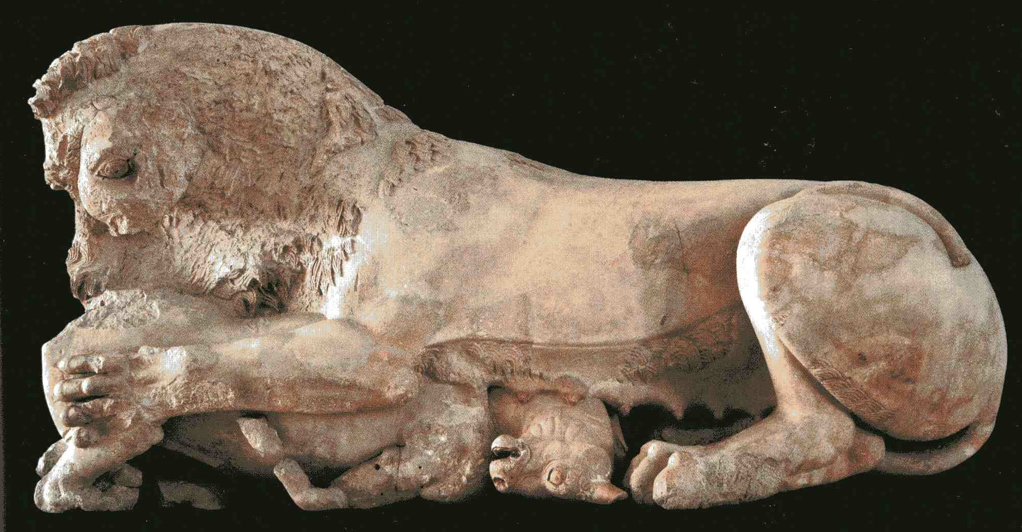 Lioness at the centre of the East pediment of the Hekatompedon (Athens, acropolis museum)